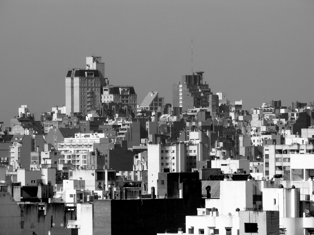 Panorama of Nueva Cordoba neighborhood. Cordoba, Argentina.